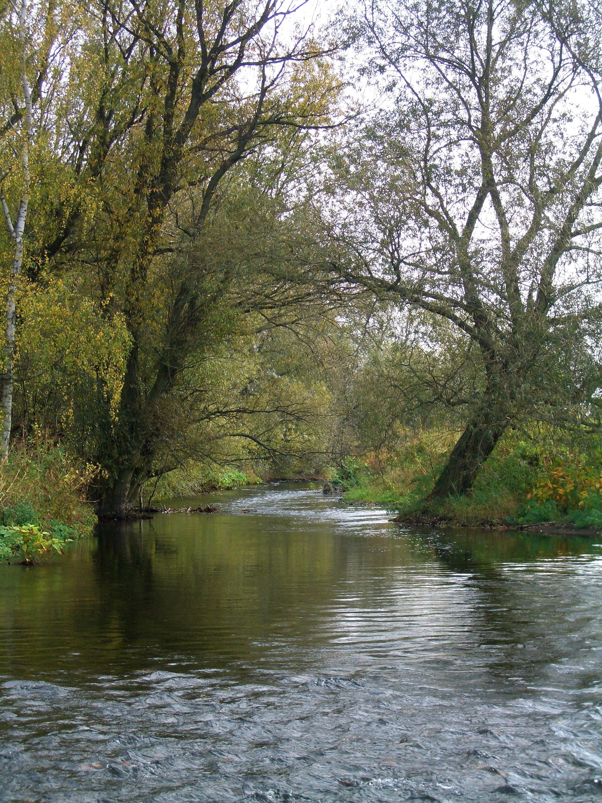 Oker valley near Schladen